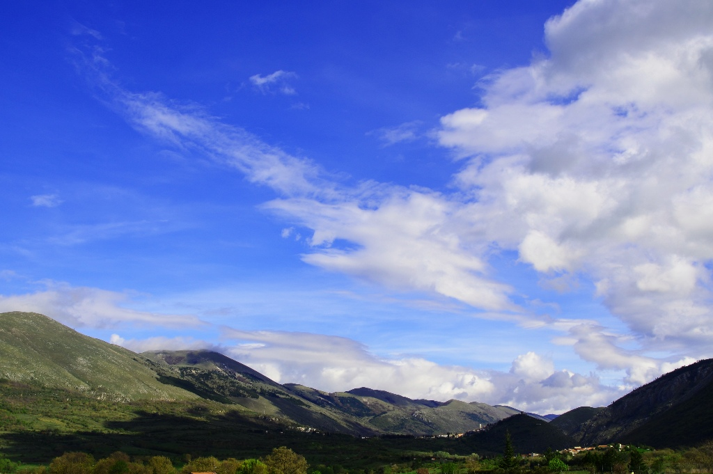 Landscape of Ortona dei Marsi and Monte Genzana - Abruzzo - Italy